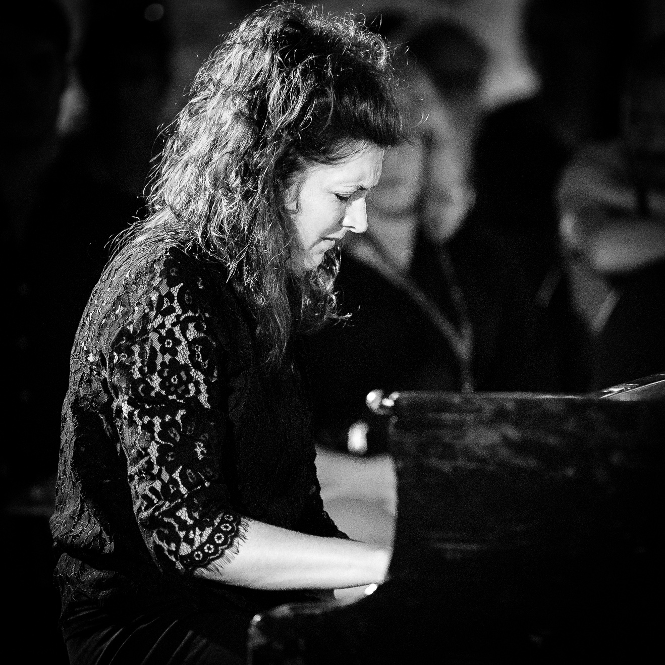 Eve Risser with En Corps in Smeltehytta. The concert was part of Kongsberg Jazzfestival and took place on 05. July 2018 in Kongsberg. Lineup: Eve Risser (piano) Benjamin Duboc (double bass) Edward Perraud (drums)